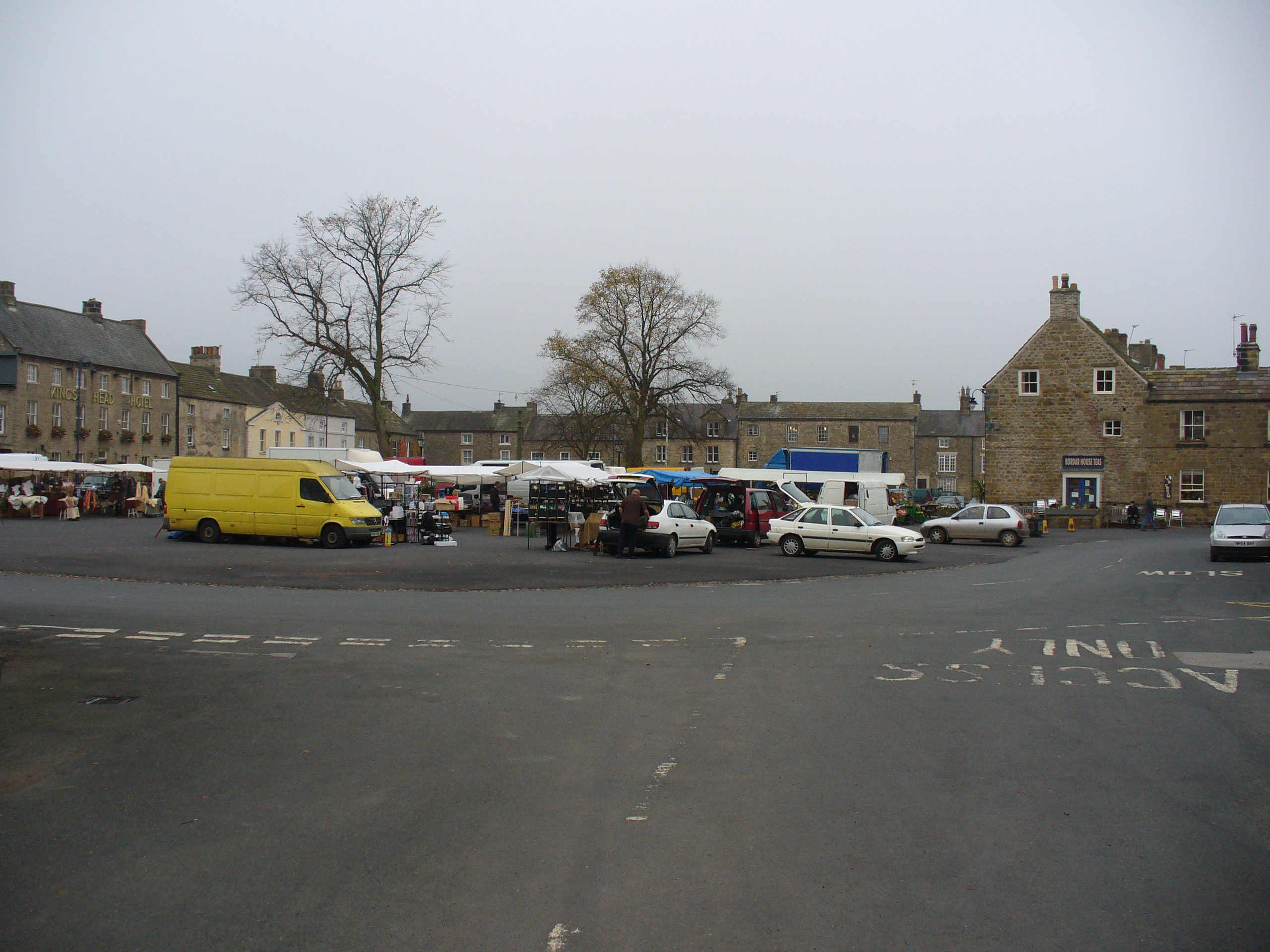 Masham, North Yorkshire, UK.